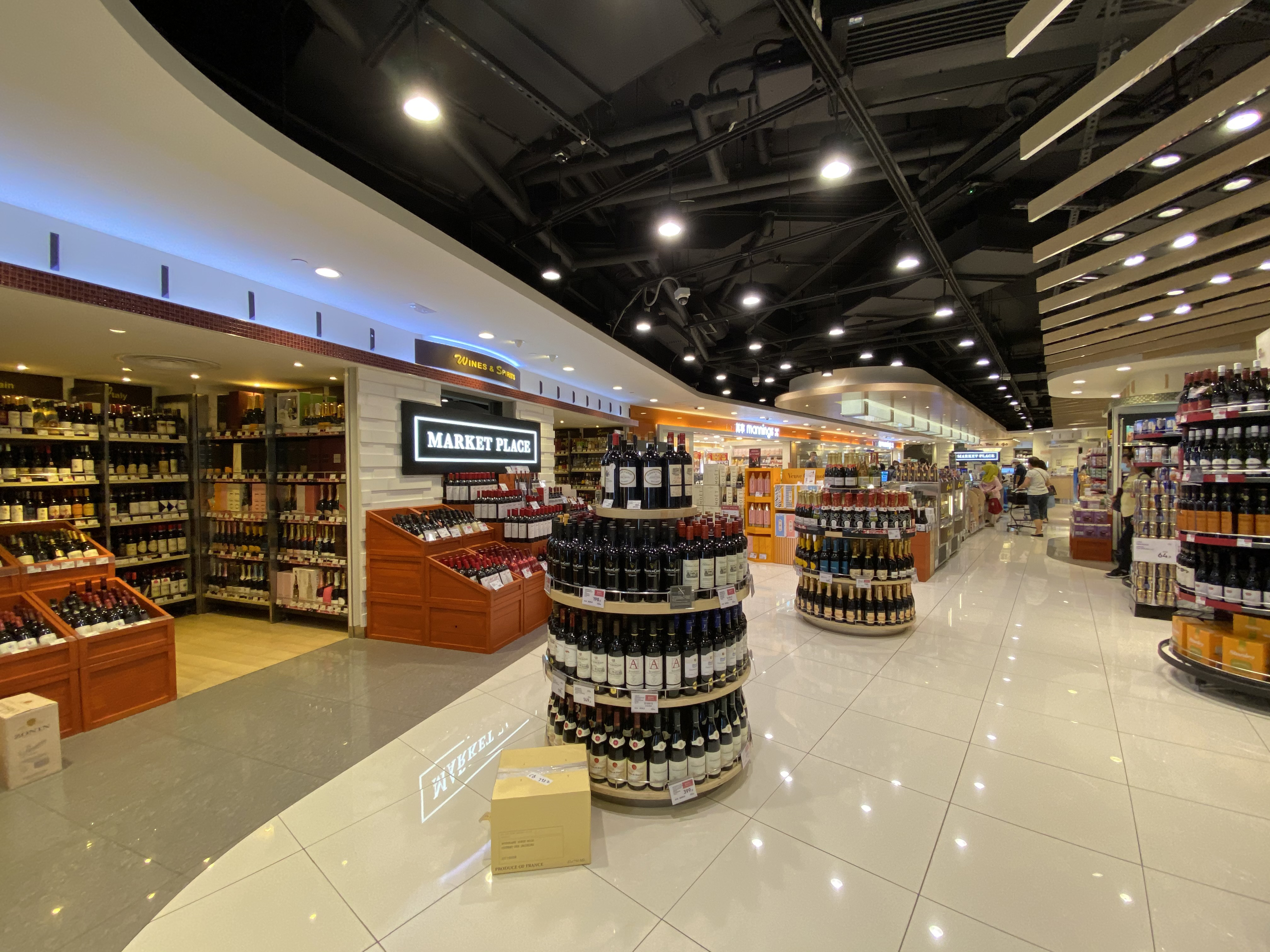 Hysan Place Market Place Interior